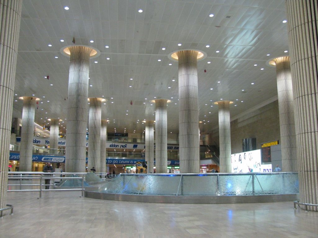 The reception hall early in the morning